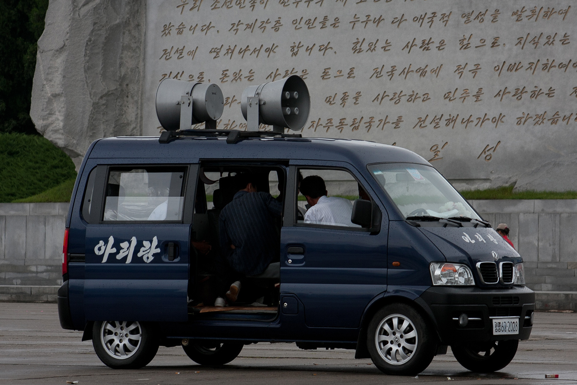 The North Korean regime spares no effort to make sure everybody gets brainwashed every day. People cannot escape the nonsense propaganda. (text inspired by Kernbeisser)